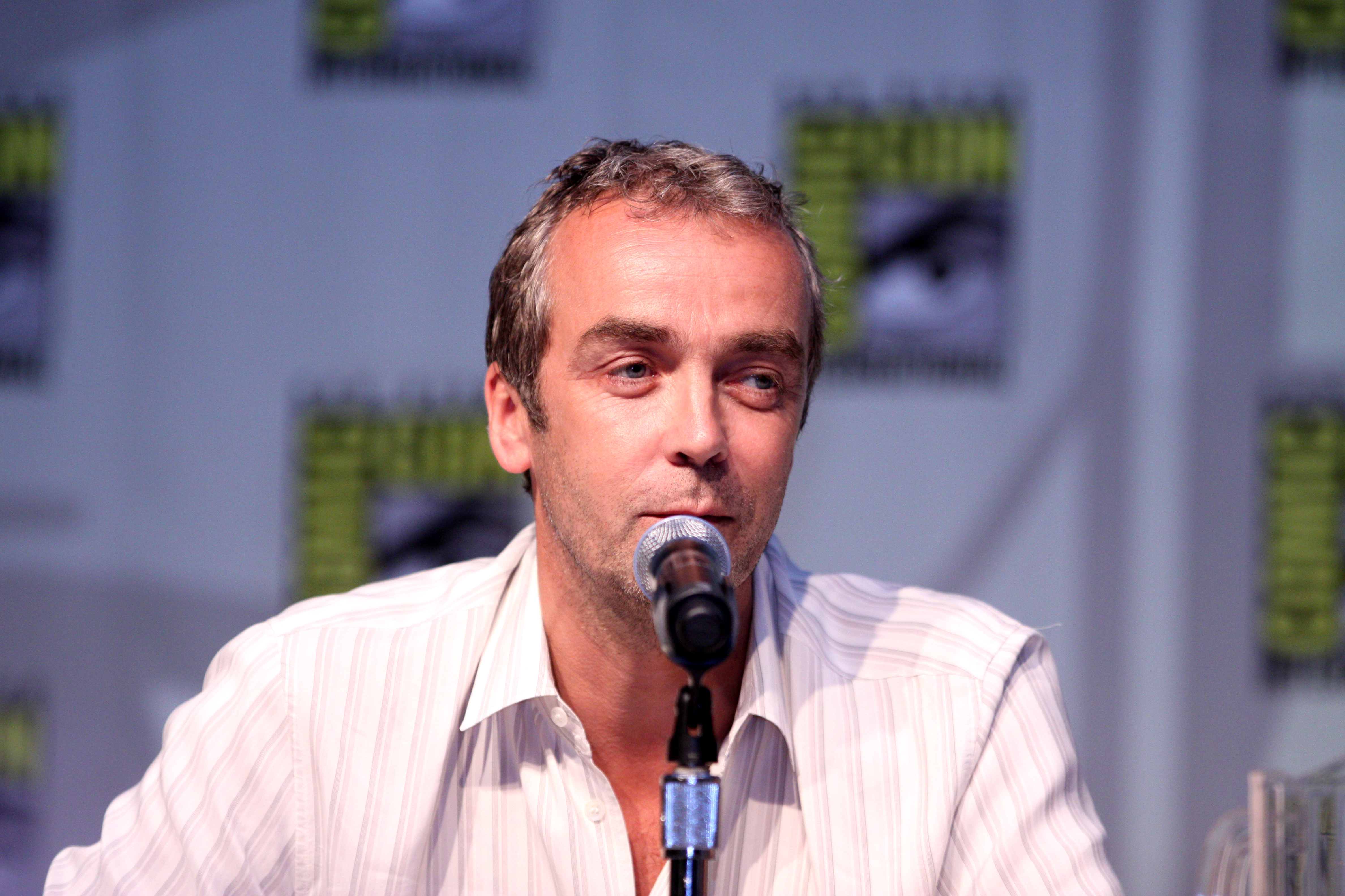 Actor John Hannah on the Spartacus: Blood and Sand panel at the 2010 San Diego Comic Con in San Diego, California.